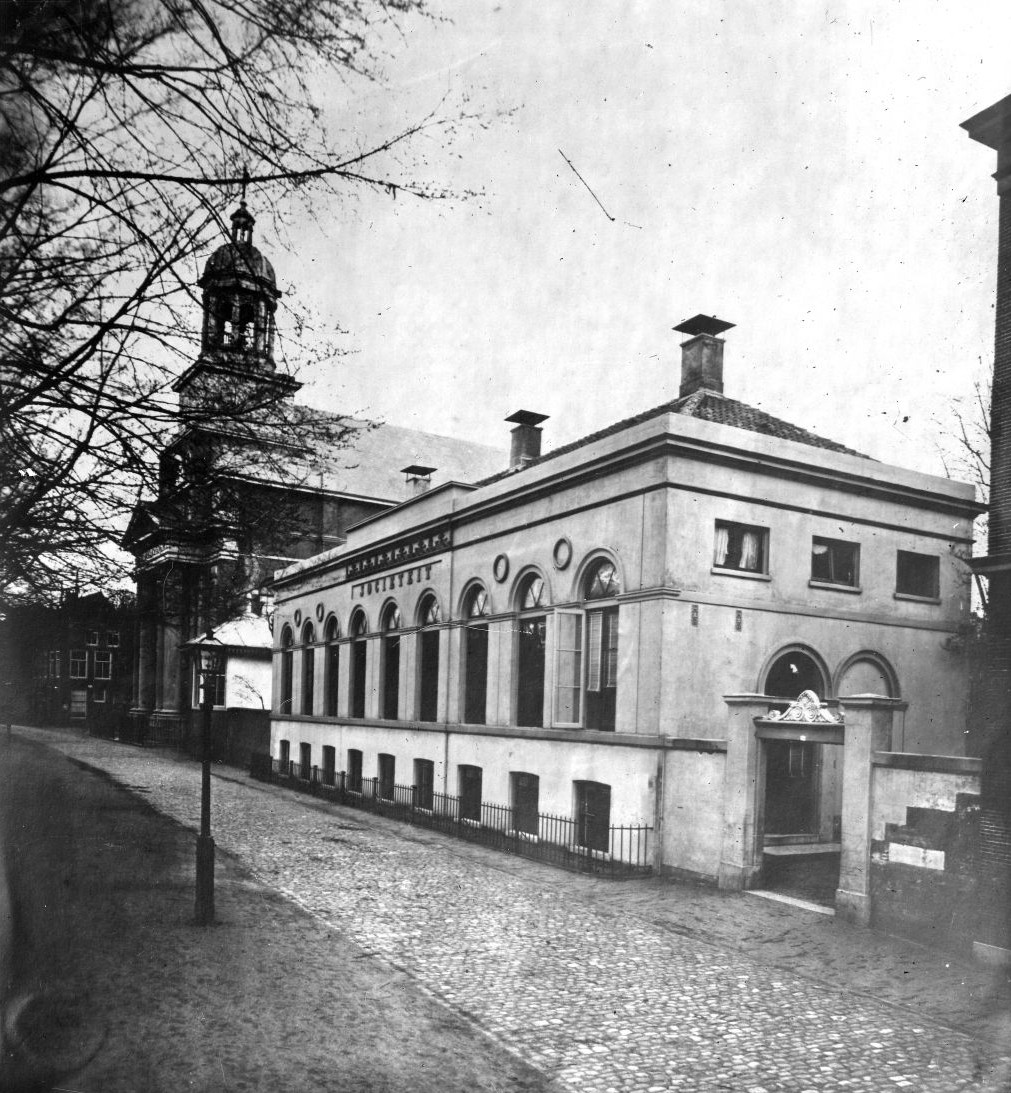 View of the Langebrug in Leiden with two buildings now gone. To the left: The St Peter's church (Petruskerk) and to the right: The (men only) clubhouse of the Nieuwe Sociëteit, often referred to as 'Women's sorrow' (Vrouwenverdriet). The church burnt down in 1933; the clubhouse was demolished in 1887.